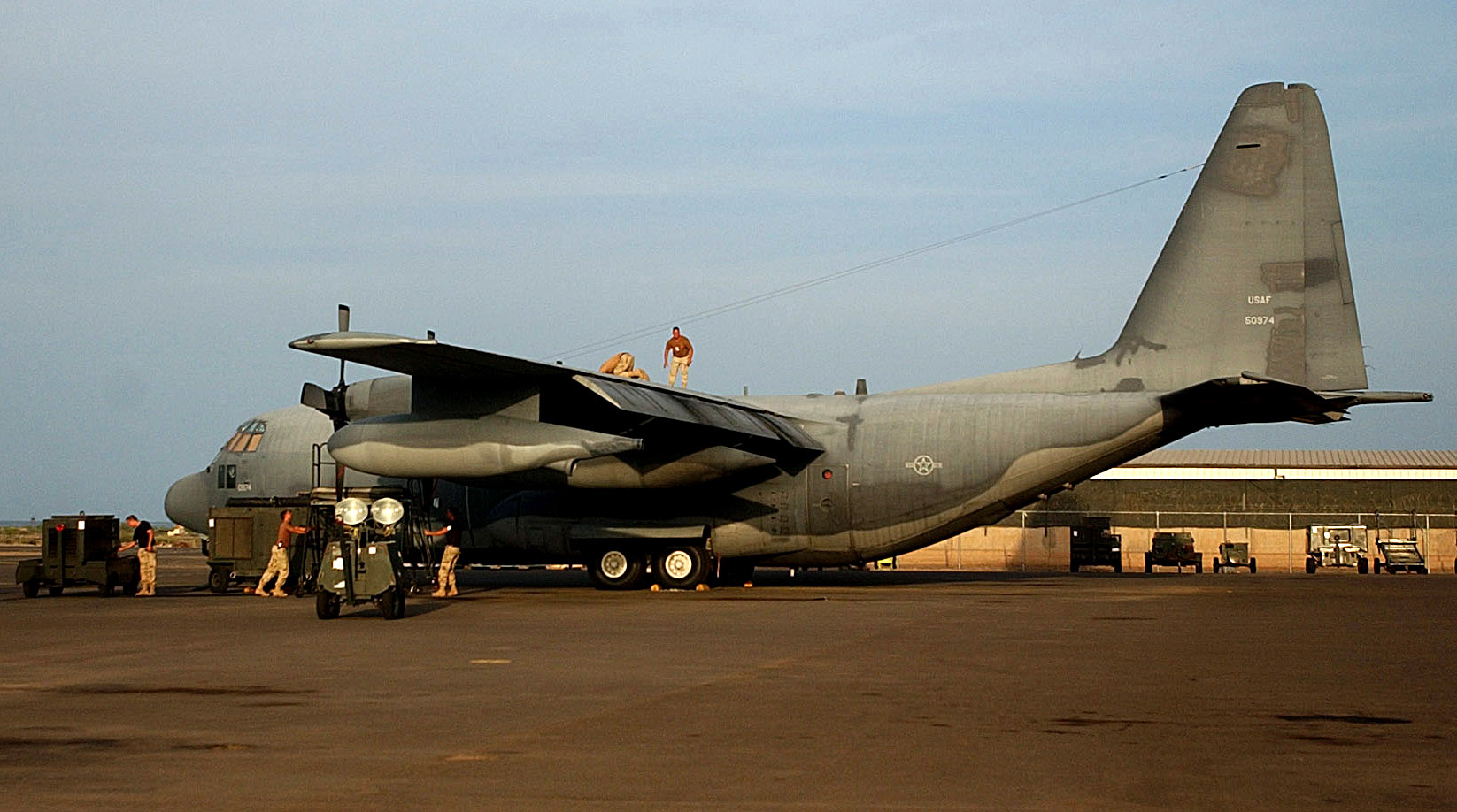 DJIBOUTI, Africa -- Members of the 449th Expeditionary Rescue Squadron prepare the HC-130 Hercules recently for Combined Task Force-Horn of Africa missions. The New York Air National Guardsmen are from the 102nd Rescue Squadron, the oldest ANG unit. While deployed to Djibouti, Africa, the unit performed pararescue drops, air refueling for Marine CH-53s and stayed on alert, ready to recover any downed servicemembers. (U.S. Air Force photo by 2nd Lt. Shannon Collins)